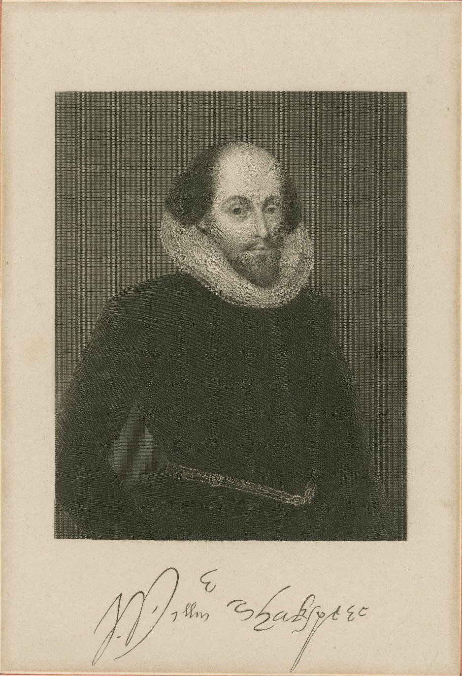 Engraving after the Ashbourne portrait, subject purported (in the 19th century) to be William Shakespeare